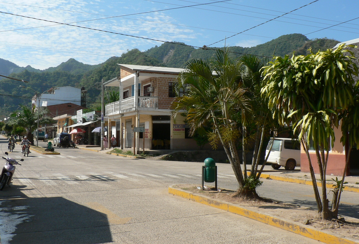 Street in the city center of Rurrenabaque in the north of the Departamento La Paz, Bolivia (2014).